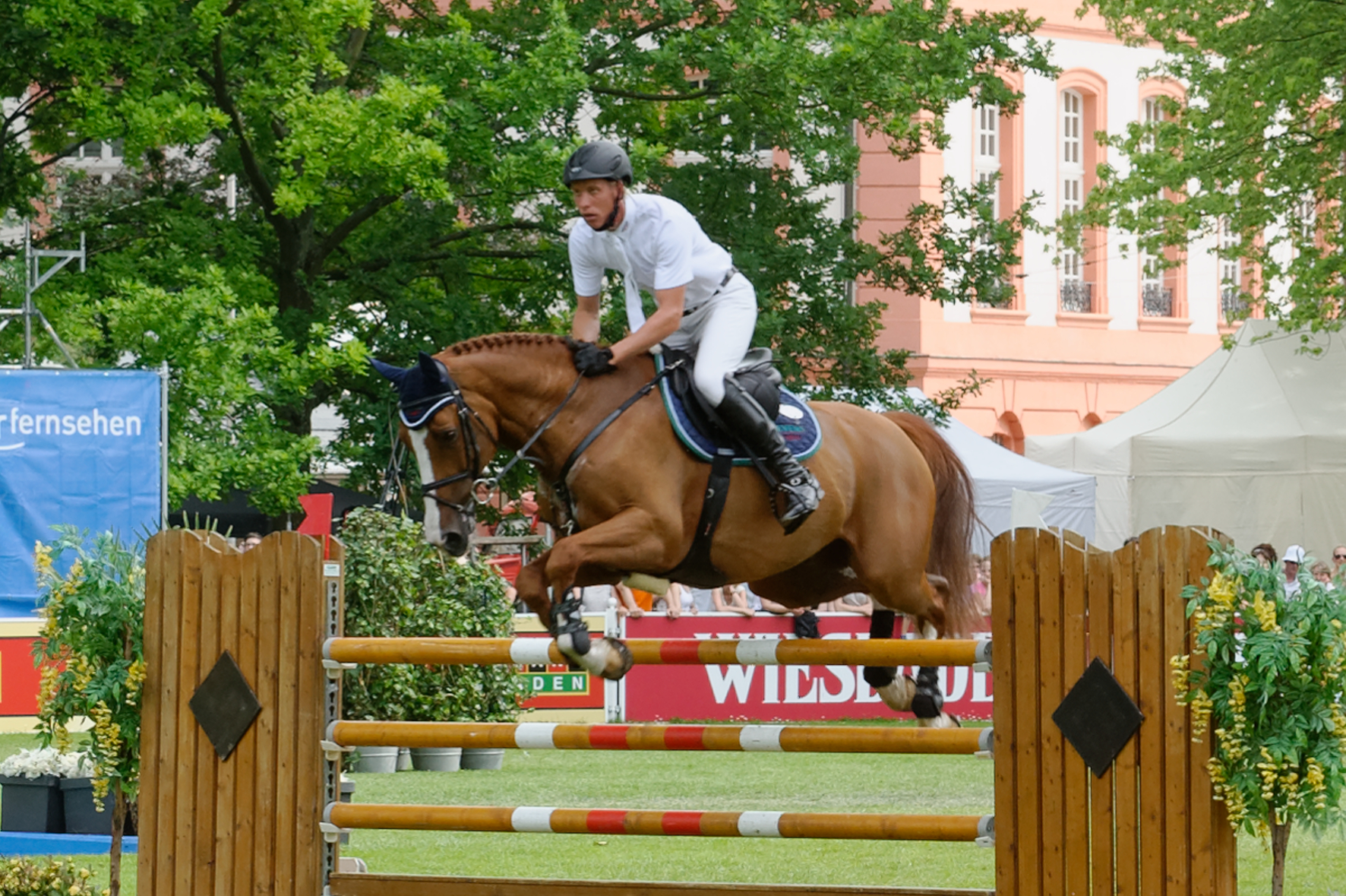 Internationales Pfingstturnier Wiesbaden 2014 The making of this document was supported by the Community-Budget of Wikimedia Germany.